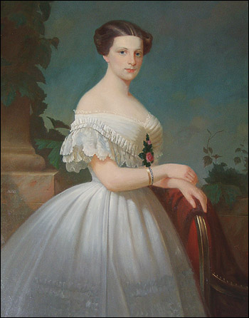 Oil portrait of Countess Amalie Adlerberg, born Lerchenfeld